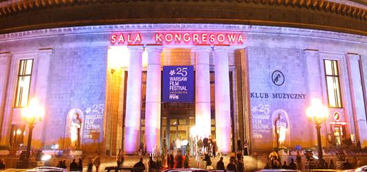 Warsaw Film Festival